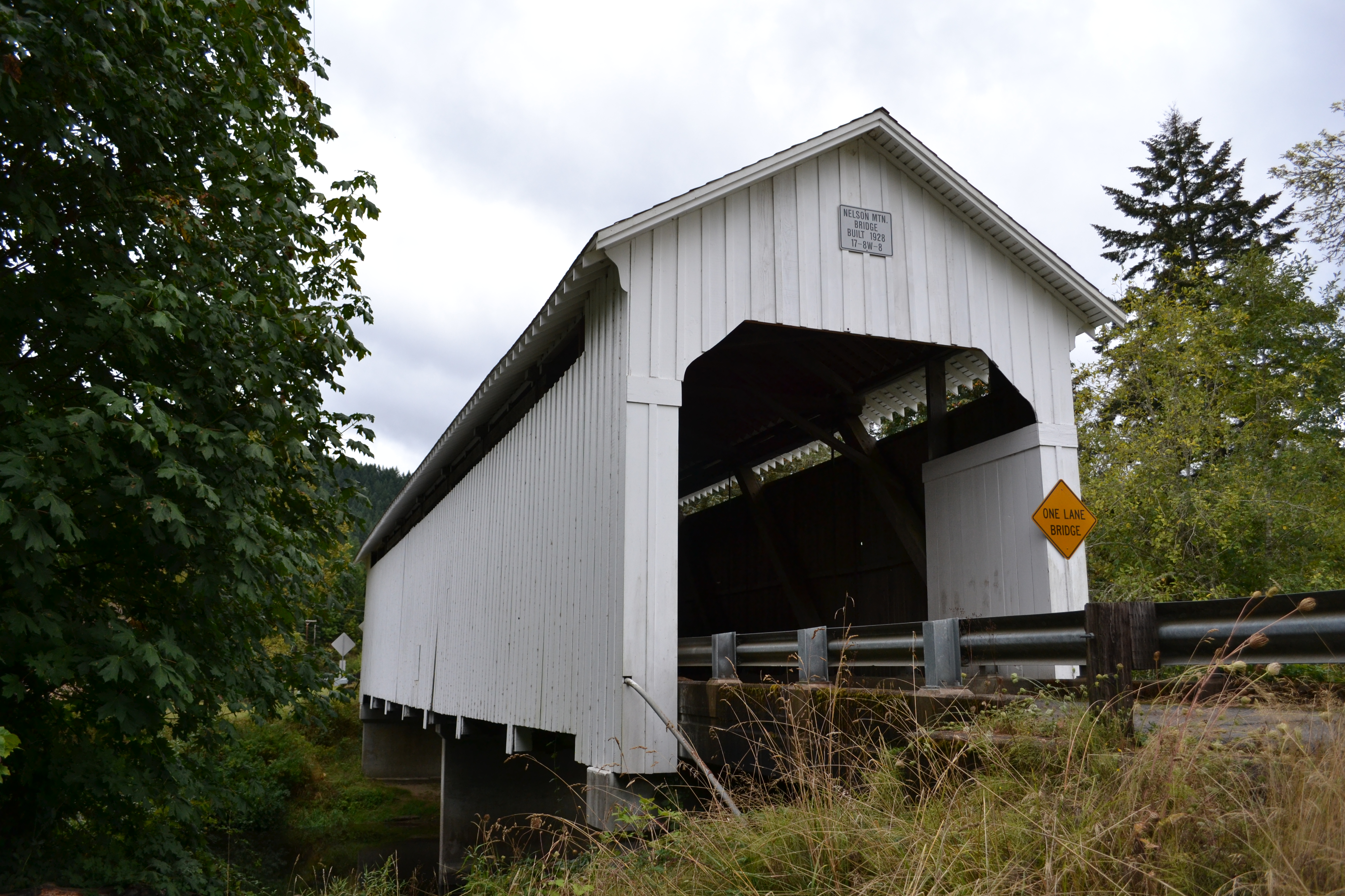 Nelson Mountain Covered Bridge (Greenleaf, Oregon) also called Lake Creek Bridge